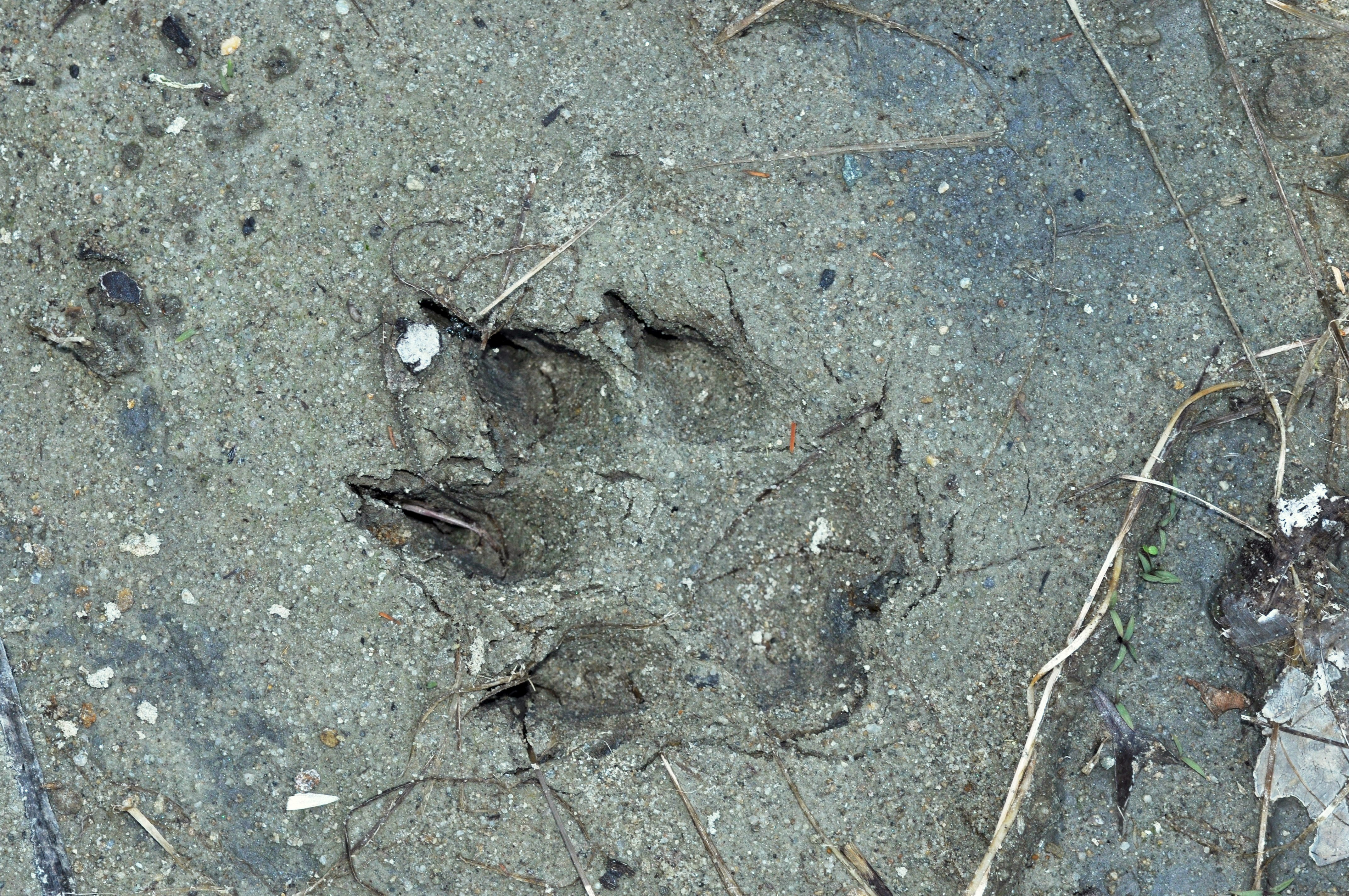 This picture was taken during the project Wiki Loves Butterfly in Buxa Tiger Reserve, Alipurduar, West Bengal,India. The pug mark of Panthera pardus fusca(Meyer), 1794-Indian leopard